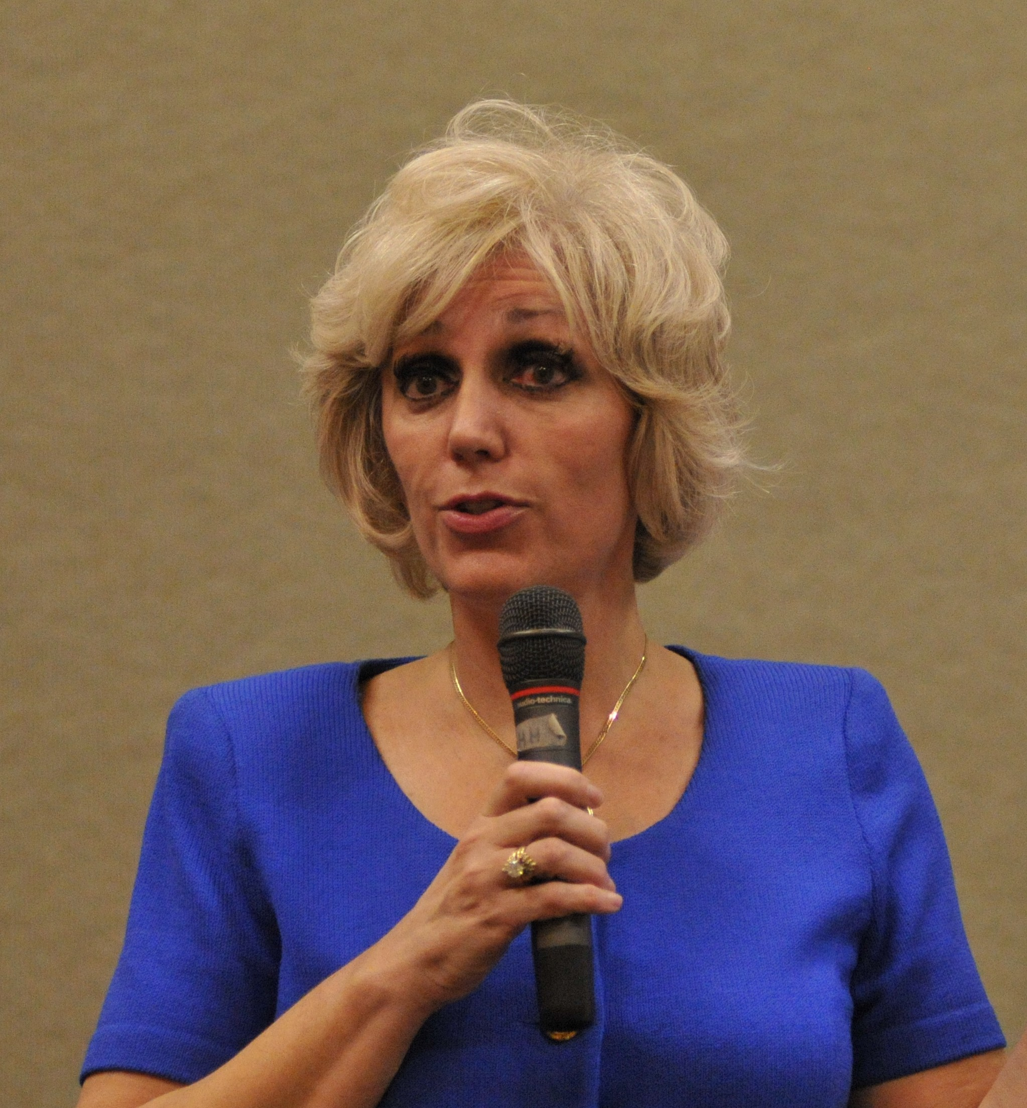 Attorney and activist Orly Taitz